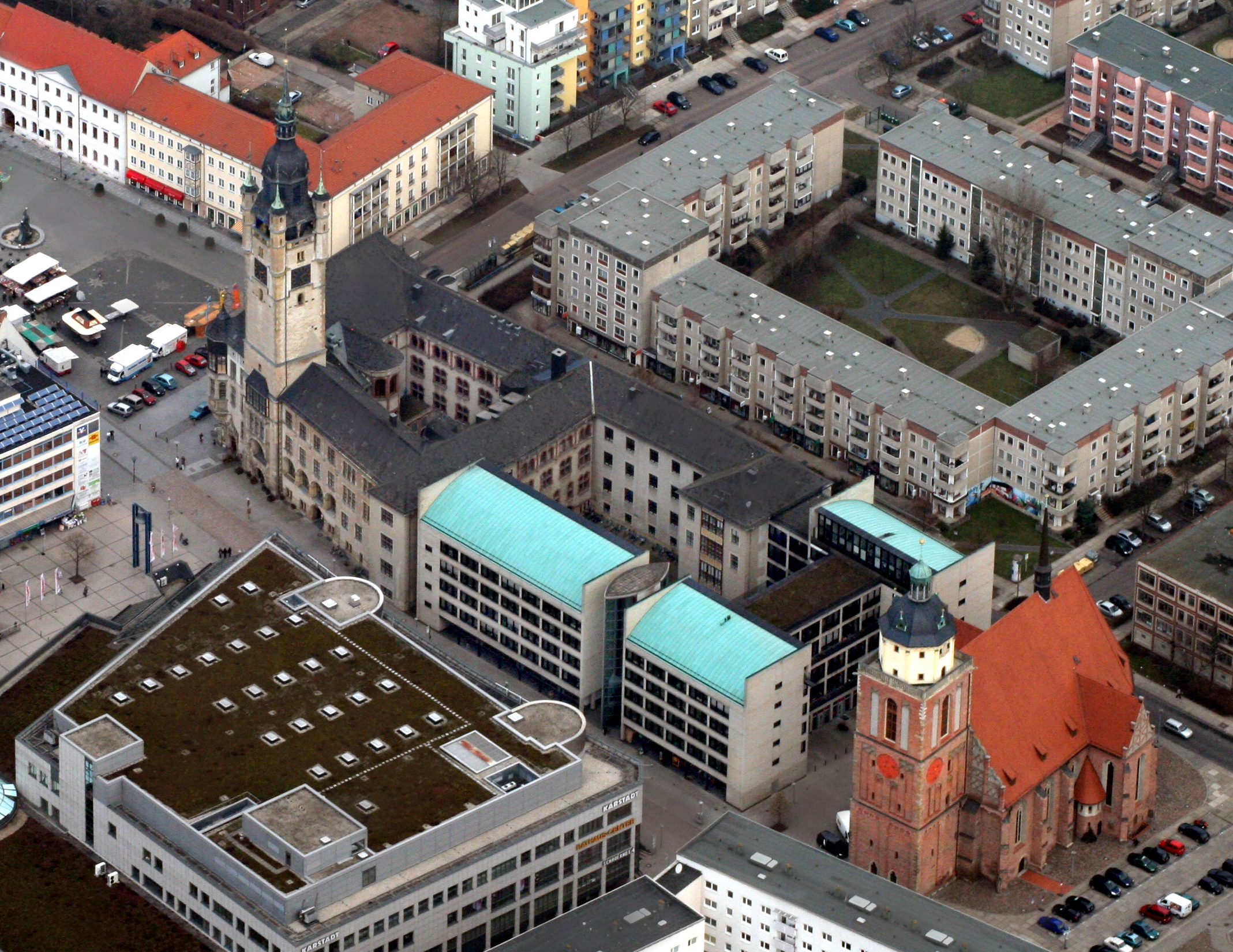 Aerial view of the townhall of Dessau